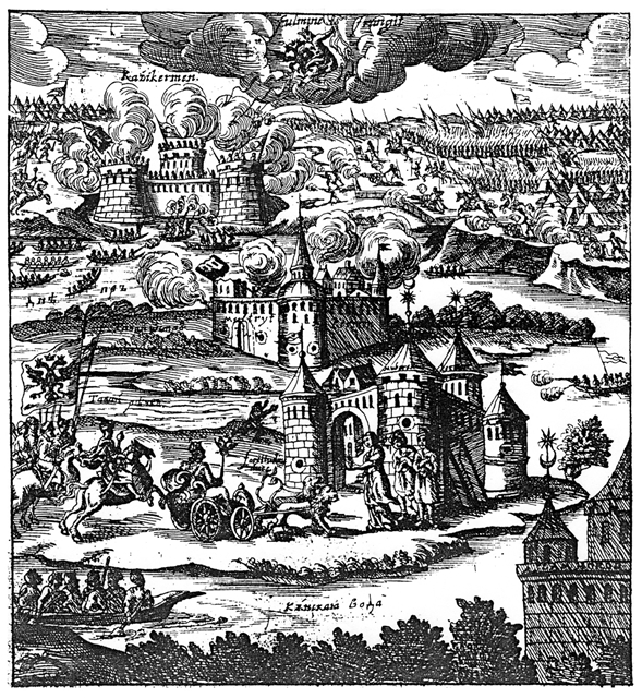 Besiegement of Kazy-Kermen in 1695